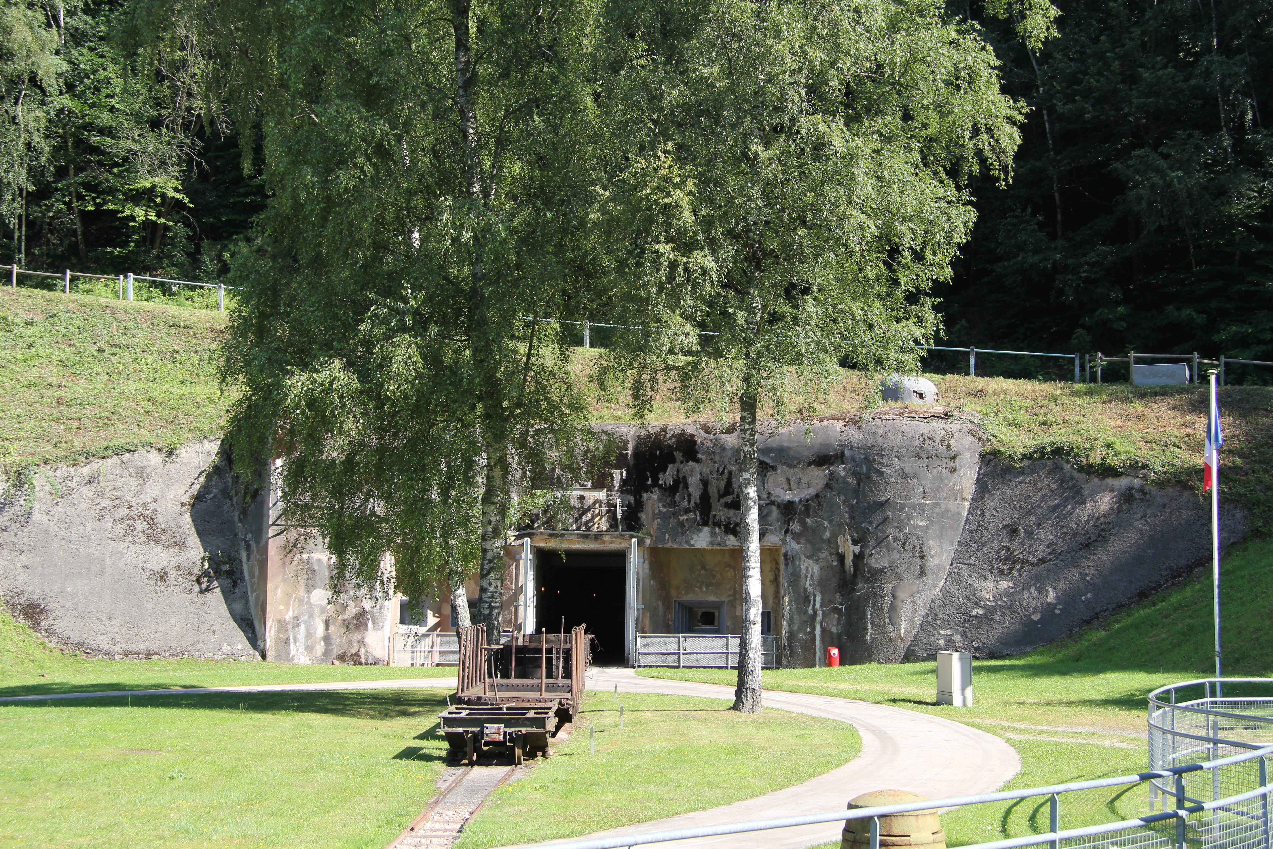 Maginot Line, Simserhof, munitions entry, front view